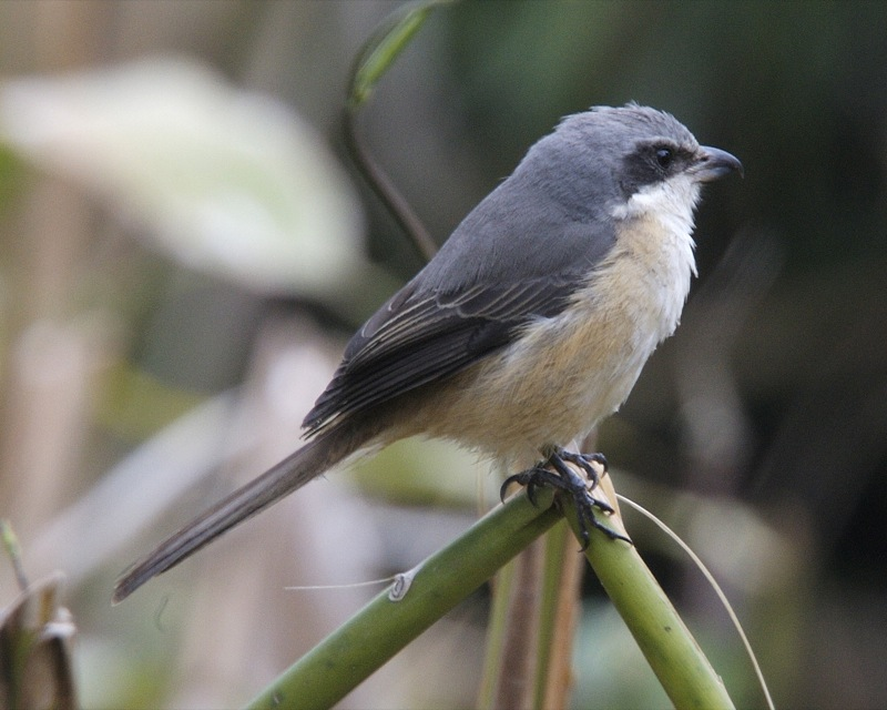 Grey-backed Shrike Lanius tephronotus นกอีเสือหลังเทา Khao Yai, Thailand 18th. January 2009